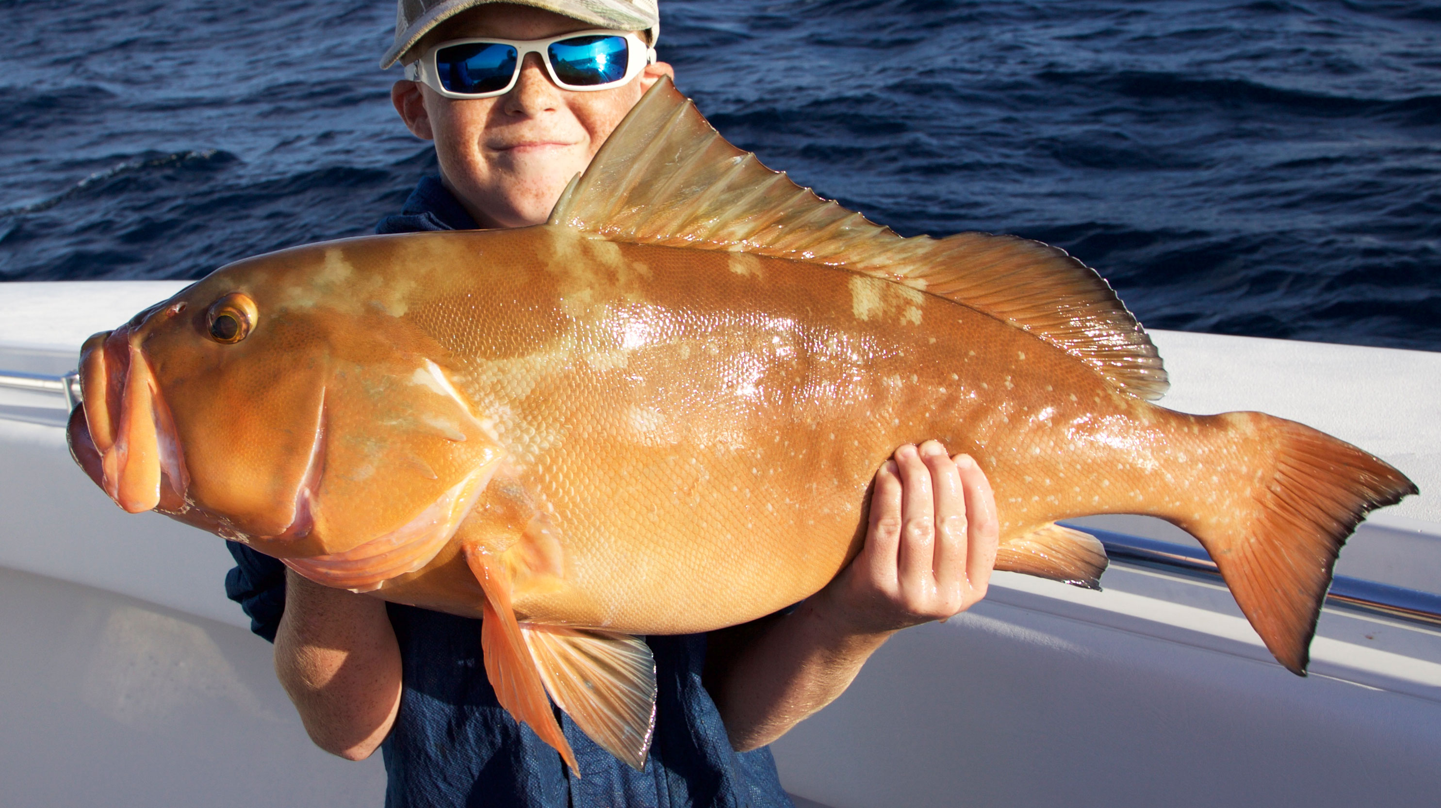 Red Grouper caught by David Delph off Key West in the Florida Keys.